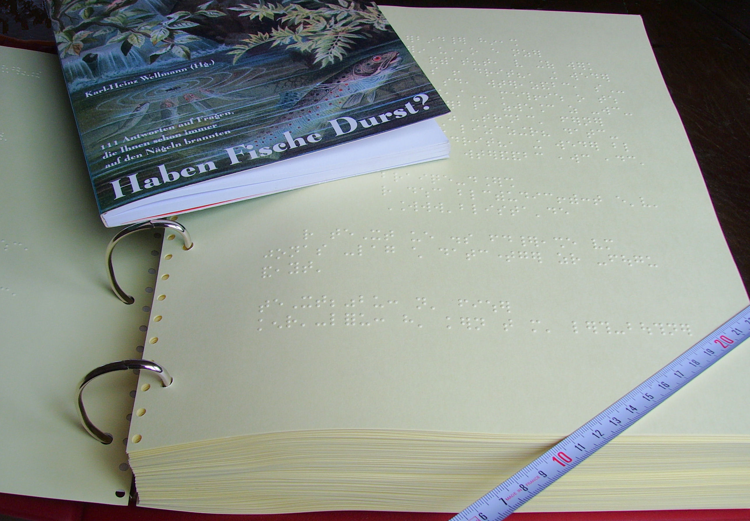 German book written in the Braille system and the same book in common letters (to compare the different sizes).